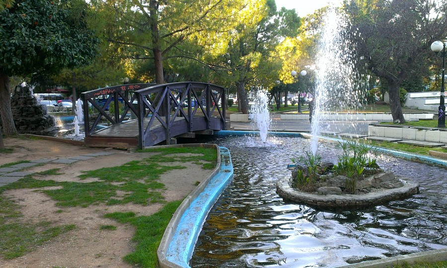 agia paraskevi